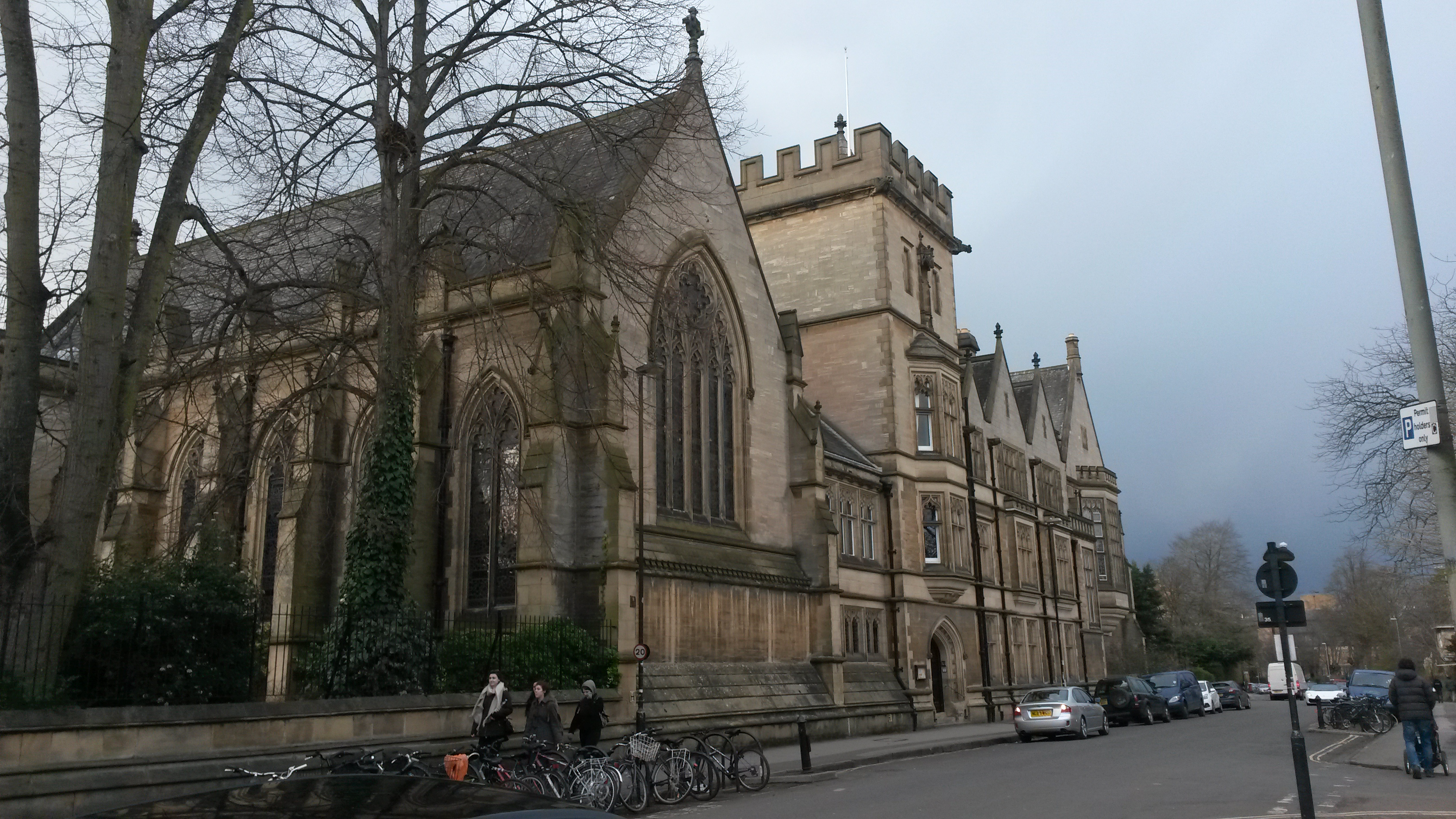 Harris Manchester College, Oxford seen from the south on Mansfield Road.